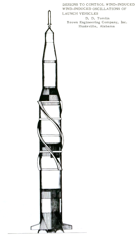 Proposal of helical strakes to limit the efforts resulting from the periodic release of Bénard-Karman eddies due to the wind on the launch pad. This proposal was not retained.